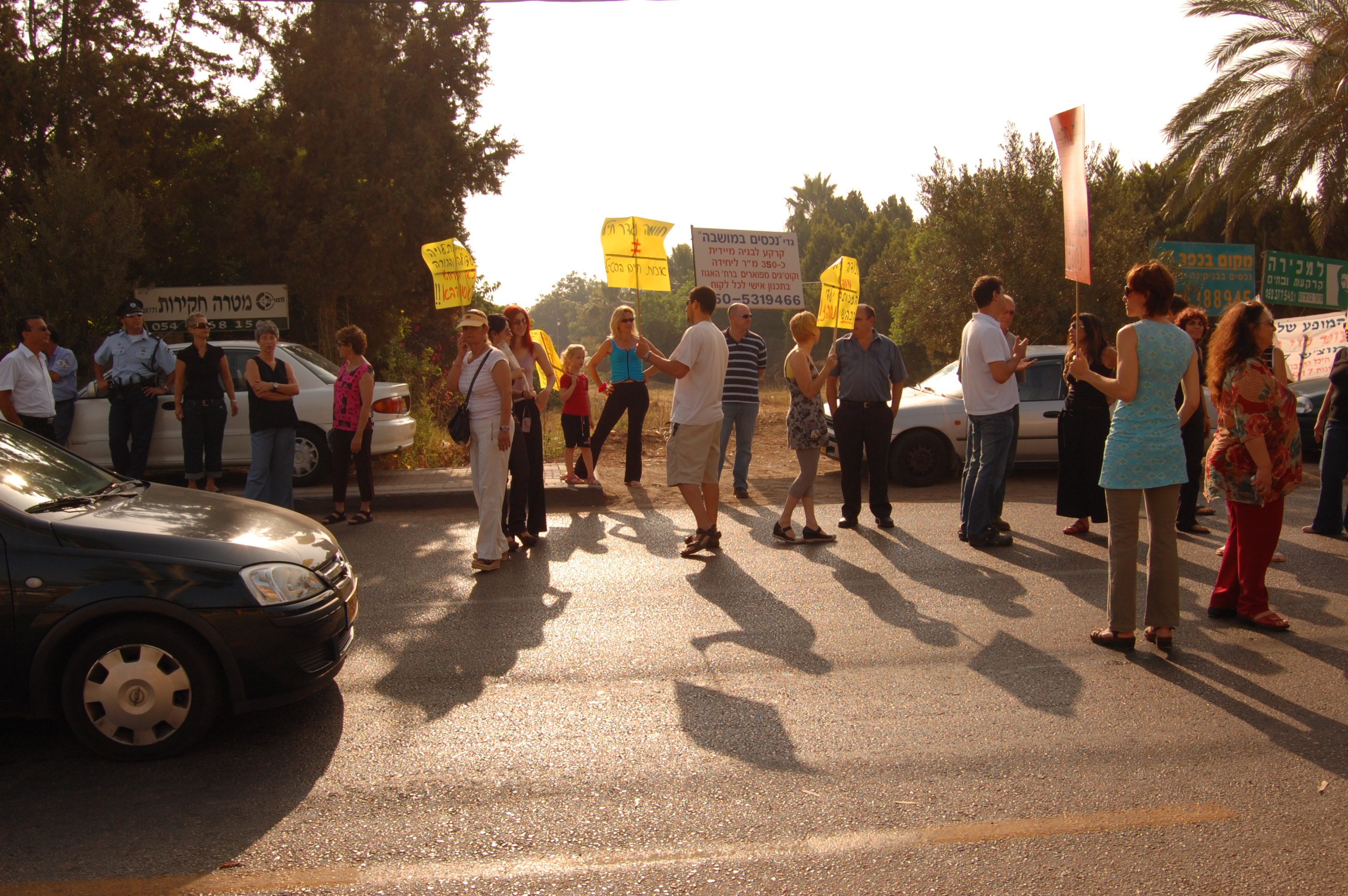 Demonstration in Israeli city Binyamina